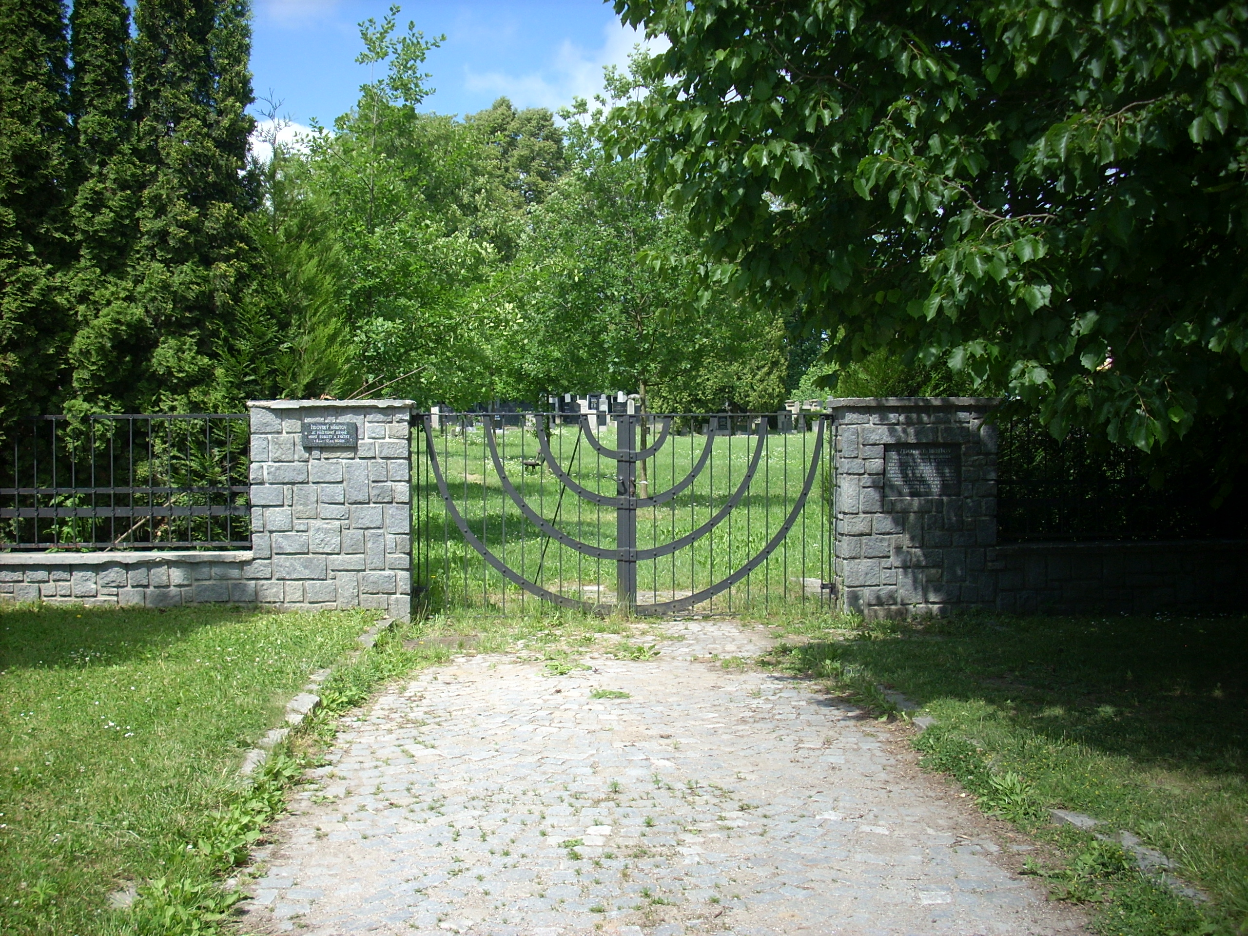 Jewish cemetery in Jihlava, entrance